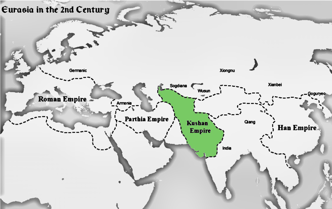 Eurasia 2nd century and Kushan Empire